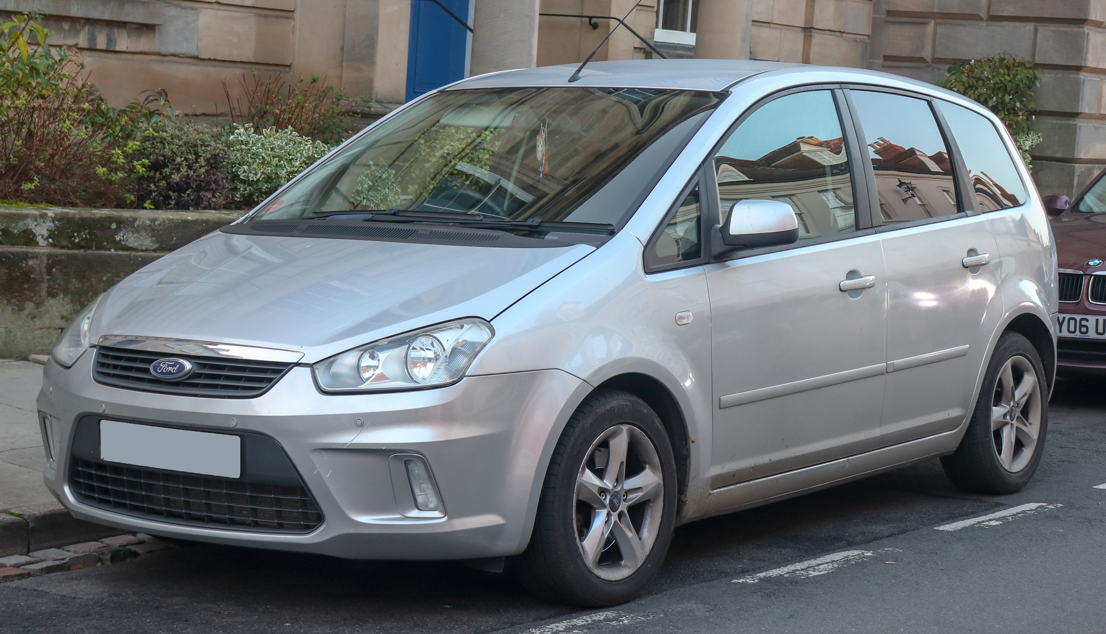 2010 Ford C-Max Zetec TD 115 1.8 Front Taken in Warwick